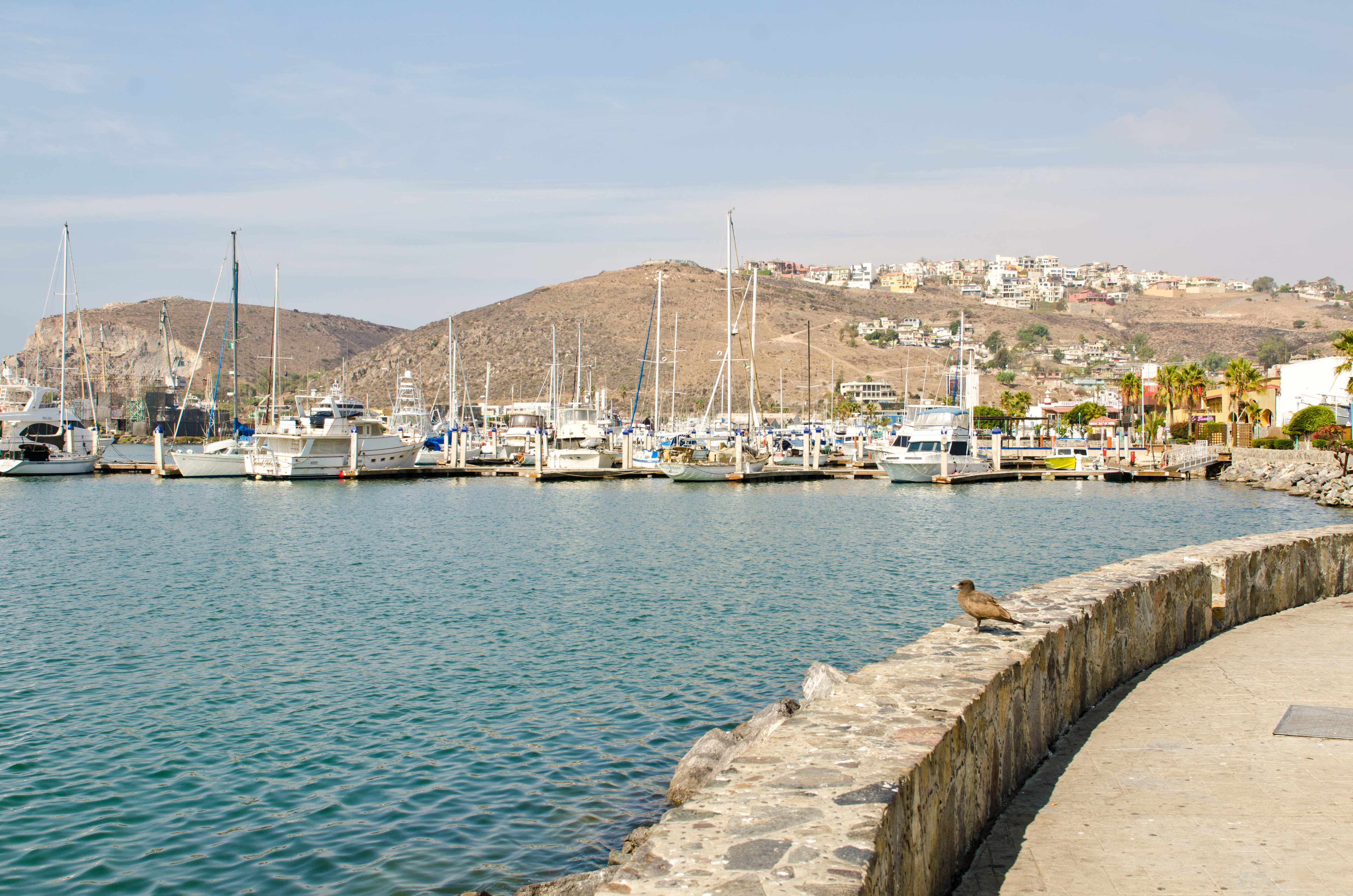 Catalina Island and Ensenada Cruise